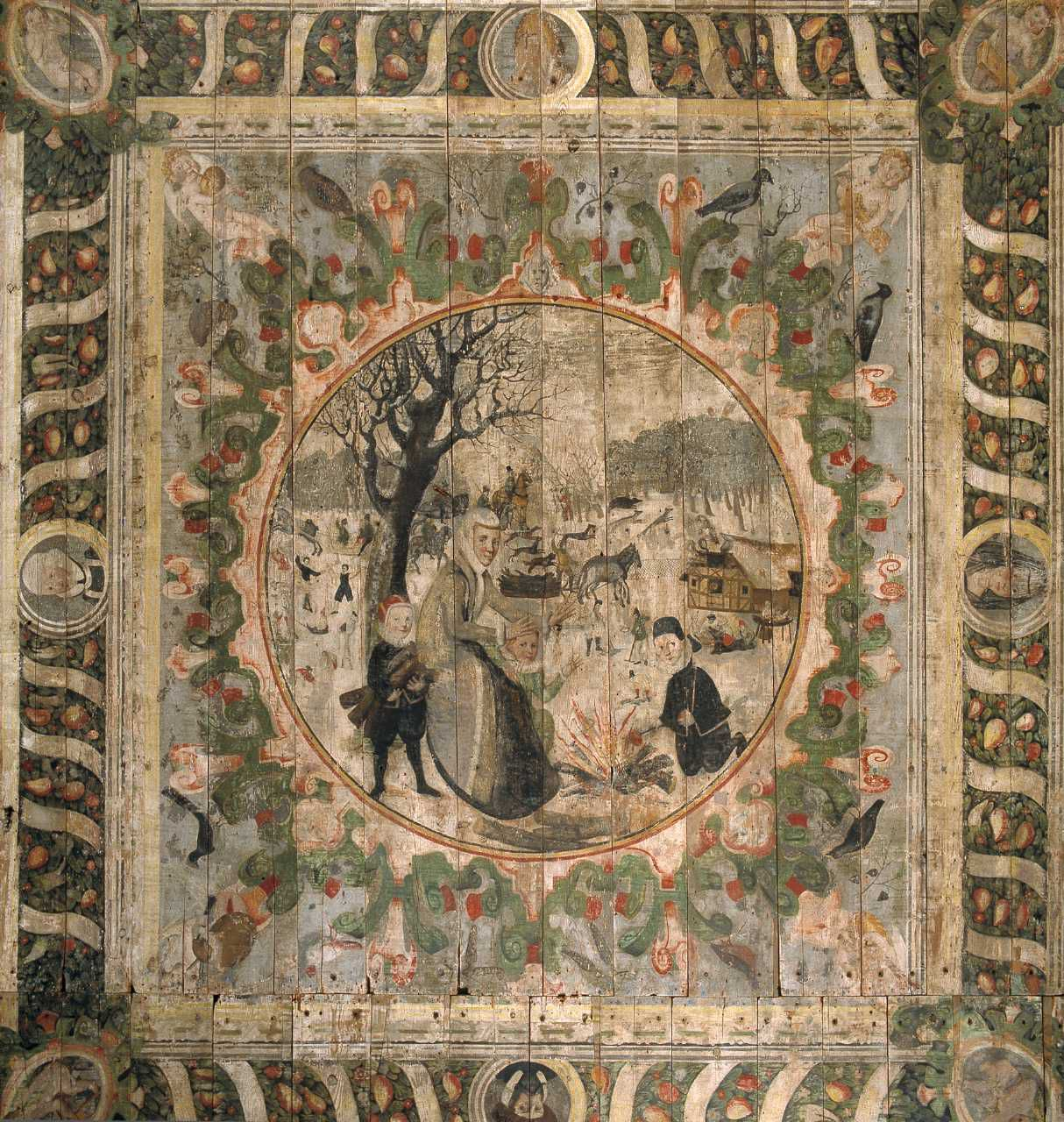 Vinteren. Et symbolsk årstidsbillede på et malet træloft fra herregården Næsbyholm på Sjælland, der blev opført 1585 af Steen Brahe. Kun halvdelen af loftet med forår og vinter er bevaret. Billedet myldrer med detaljer fra vinterlivet på landet: jagt, brændekørsel, vinterleg og svineslagtning.